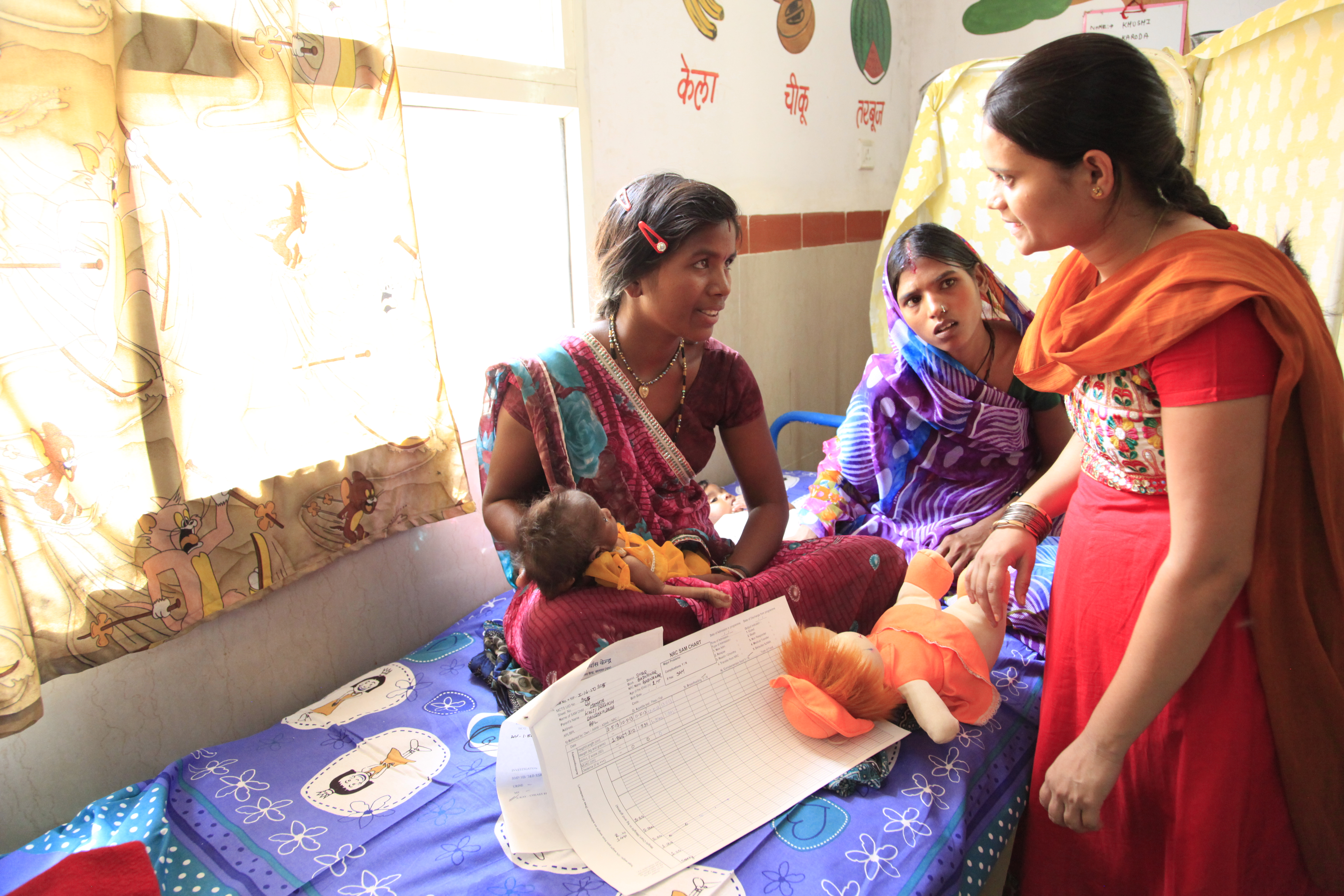 UK aid is funding breastfeeding counsellors like Varshna (right) in nutrition rehabilitation clinics across Madhya Pradesh, as part of efforts to educate pregnant women and new mothers about the importance of breastfeeding from birth to combat malnutrition. The UK has helped to provide nutrition services to nearly half a million additional/extra children and pregnant women in Madhya Pradesh over the last three years. Picture: Russell Watkins/Department for International Development